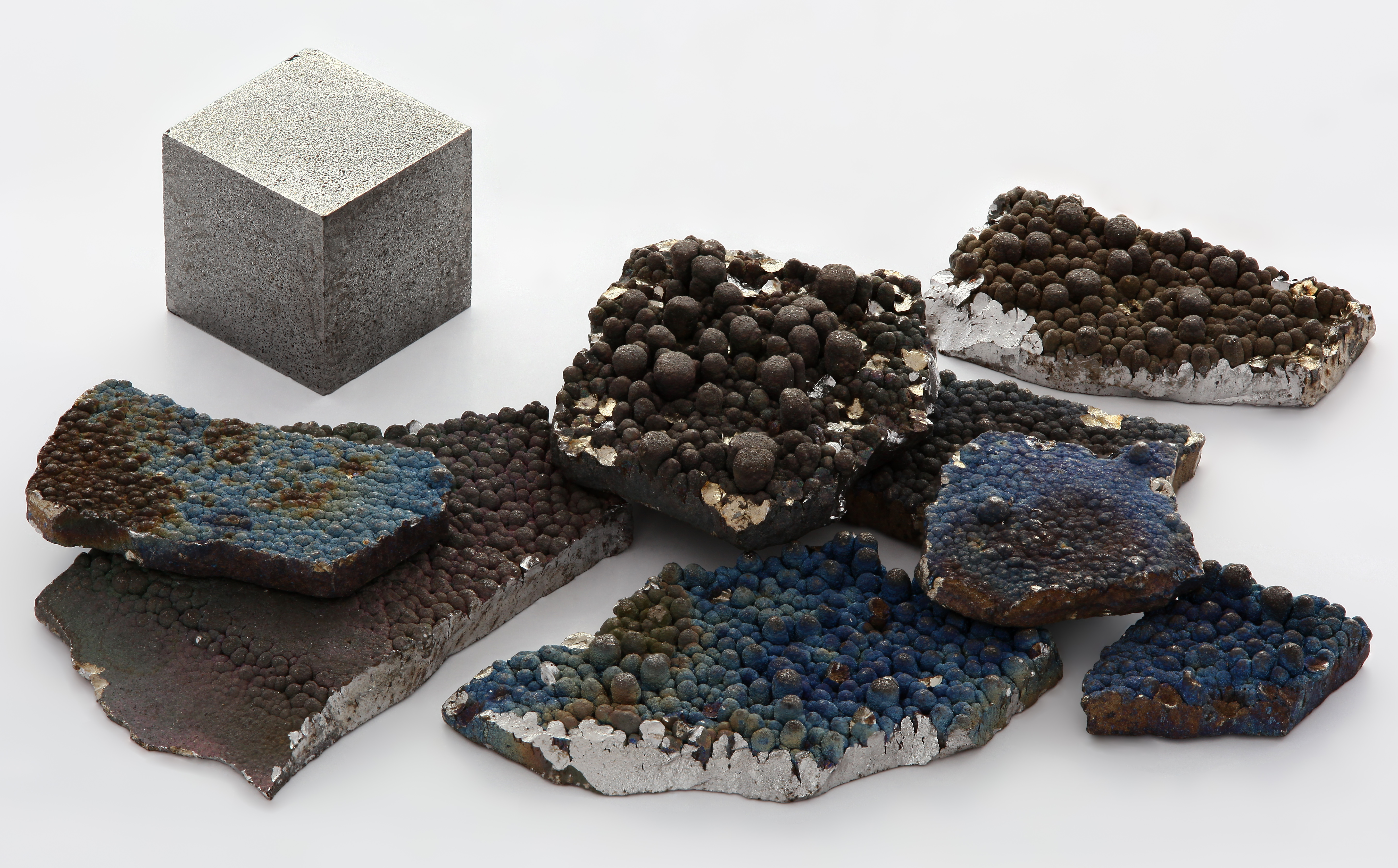 Pure (99.99 %) manganese chips, electrolytically refined, typical view of on air oxidized surface, as well as a high purity (99.99 % = 4N) 1 cm3 manganese cube for comparison.